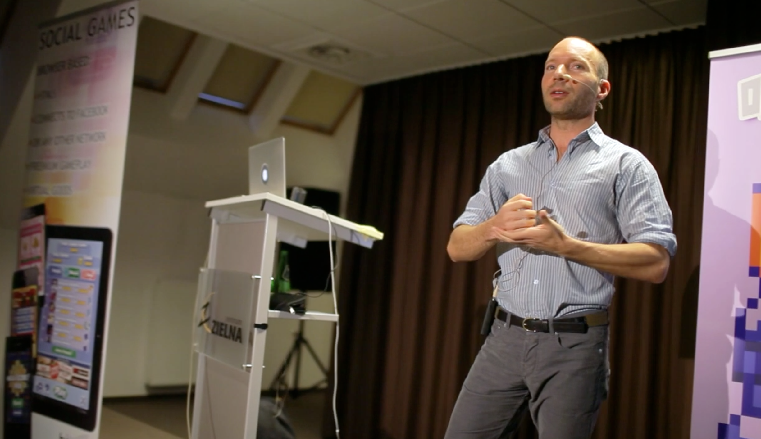 Jordan Mechner, creator of Prince of Persia on onGameStart conference in September 2012, Warsaw, Poland